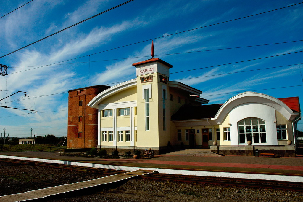 Railway station in the city of Kargat, Novosibirsk Oblast, Russia